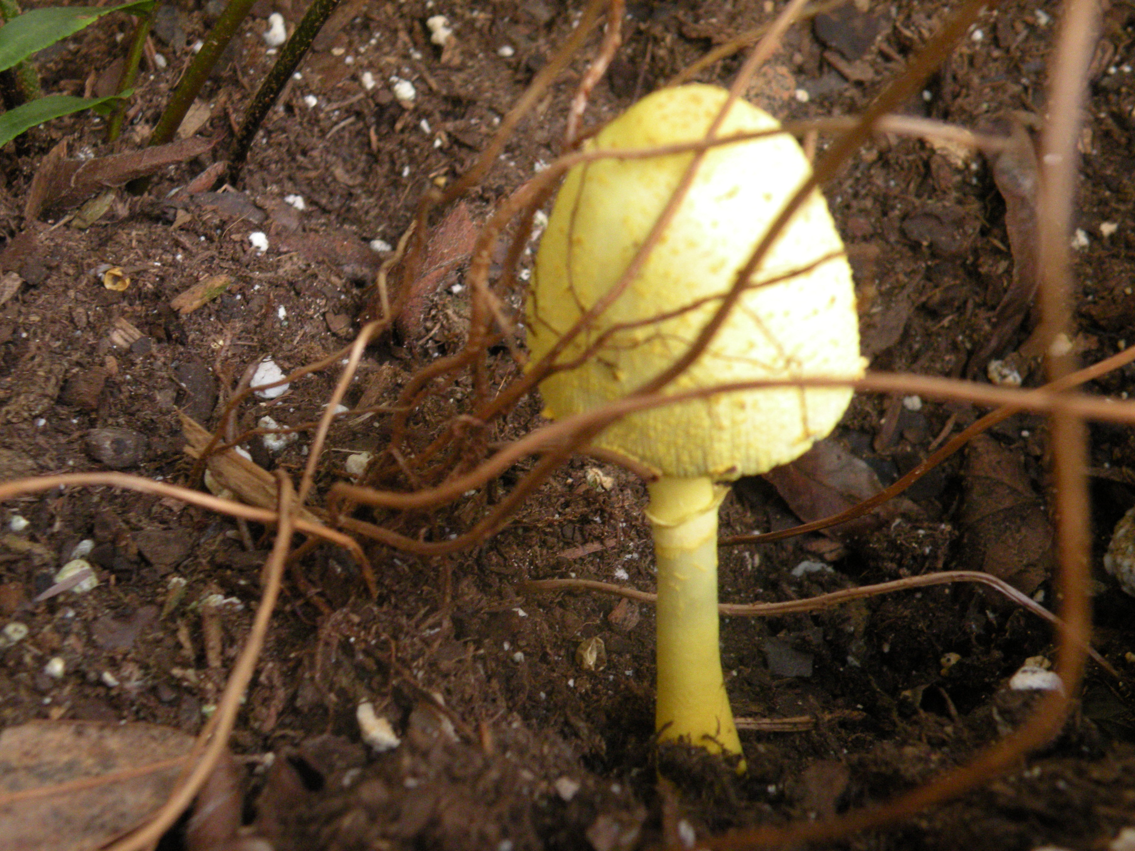 A yellow flowerpot parasol growing in dry potting soil.